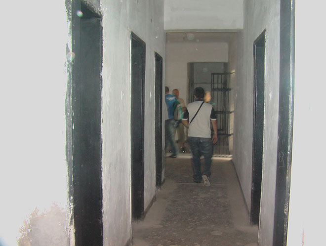 Haidari_concentration_camp_inside_block_15_in_2008. Credit: Courtesy of Arie Darzi to memorialize the Jewish community in Greece.